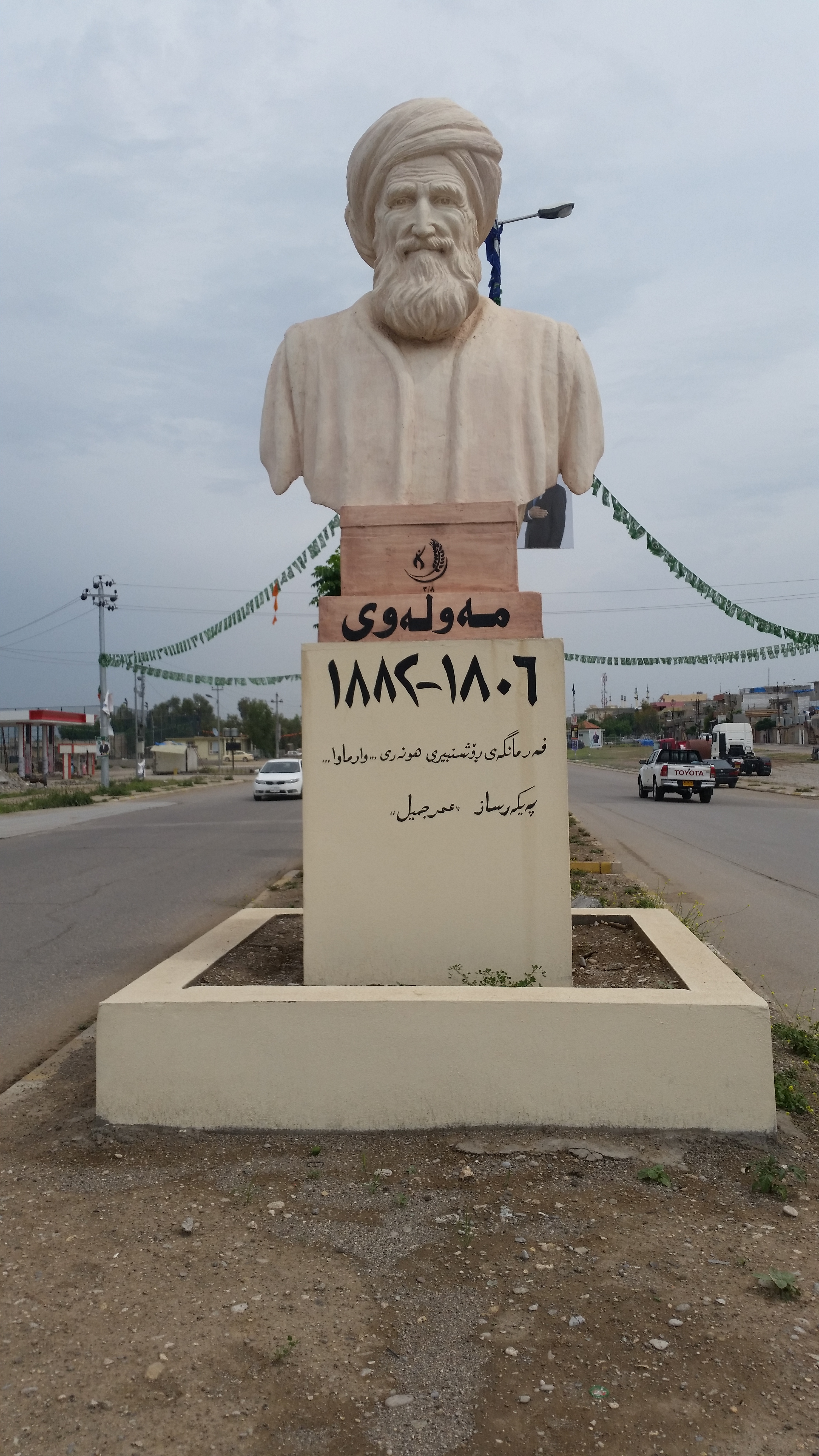 Statue of Mawlawi in Zarayan in Sulaymaniyah government